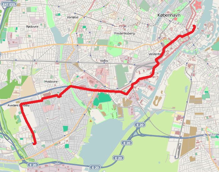 Map of Copenhagen bus line 650S between Avedøre Station and Sankt Annæ Plads as of october 2004, when the line was closed.